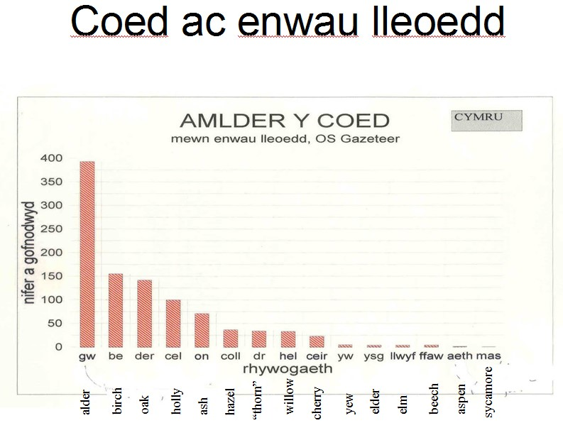 Graph to show the realtive frequency of references to different species in Welsh place name (based on the Melville Richards Record)